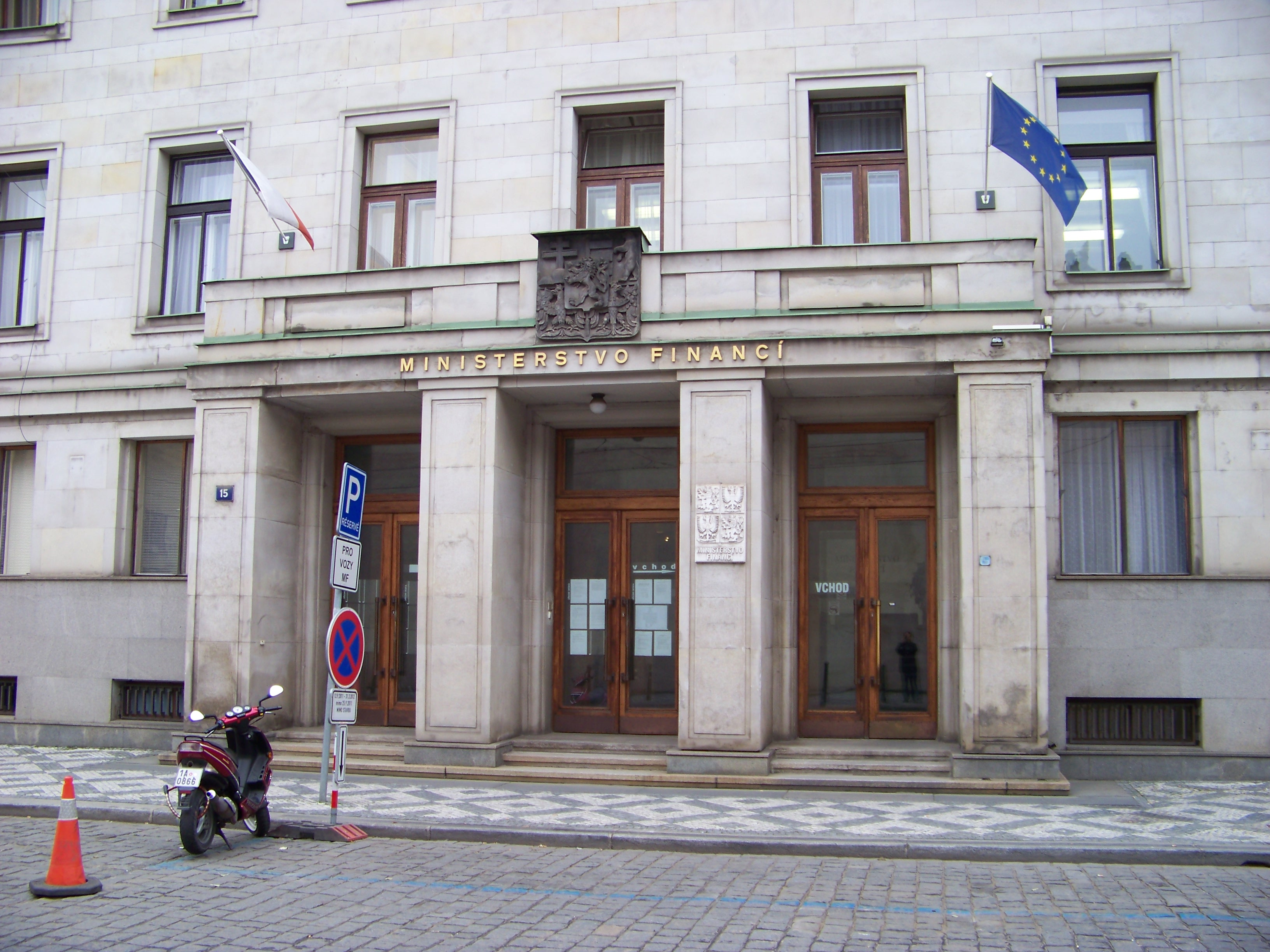 Prague-Malá Strana, the Czech Republic. Letenská street, Ministry of Finance.